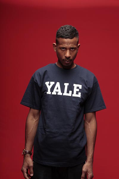 Shyne aka Jamal Michael Barrow in 2010